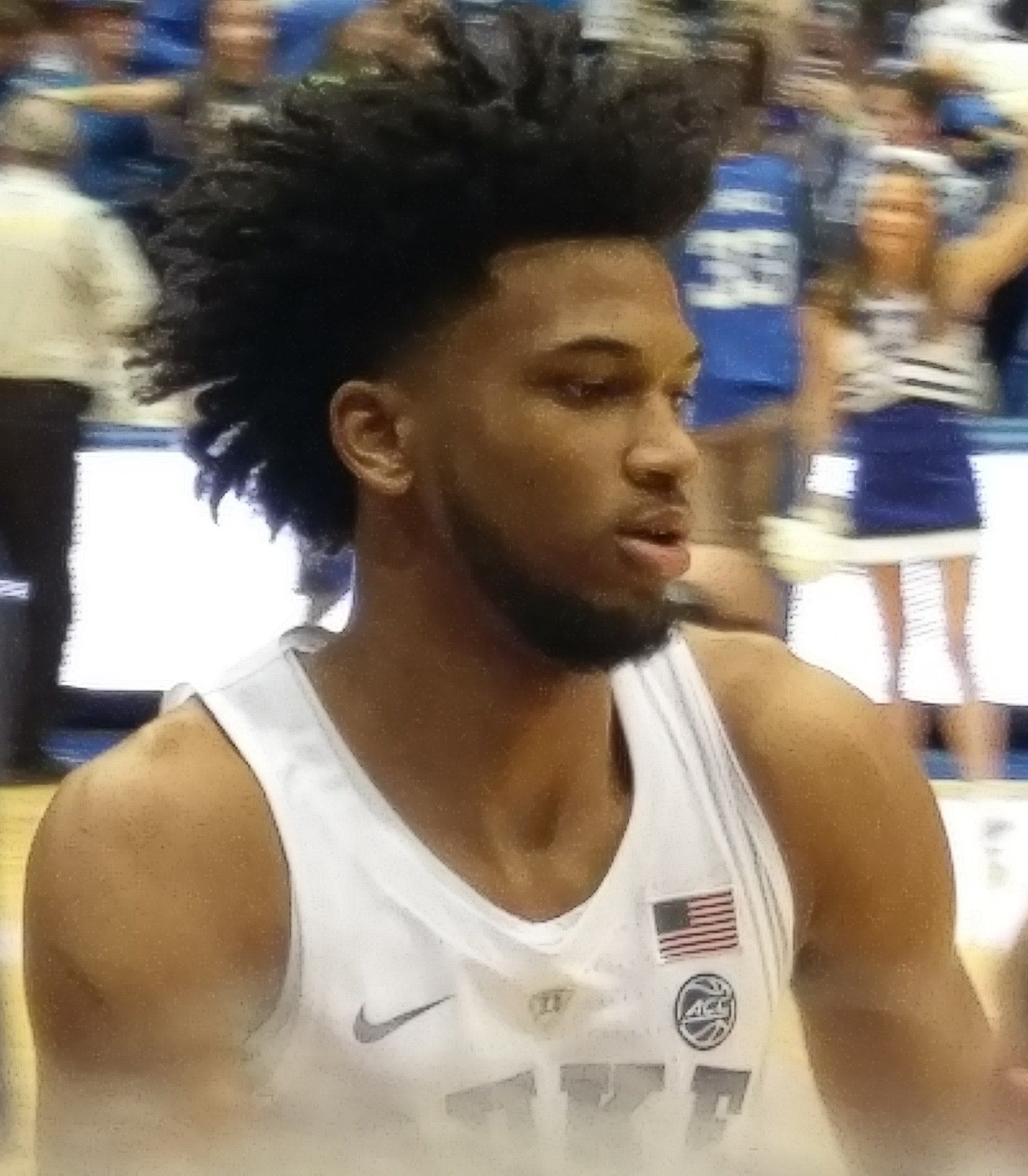 Marvin Bagley III just before the start of a Duke Blue Devils men's basketball game. The game was North Carolina at Duke in Cameron Indoor Stadium on March 3, 2018, for the final game of both teams' 2017–18 regular season.